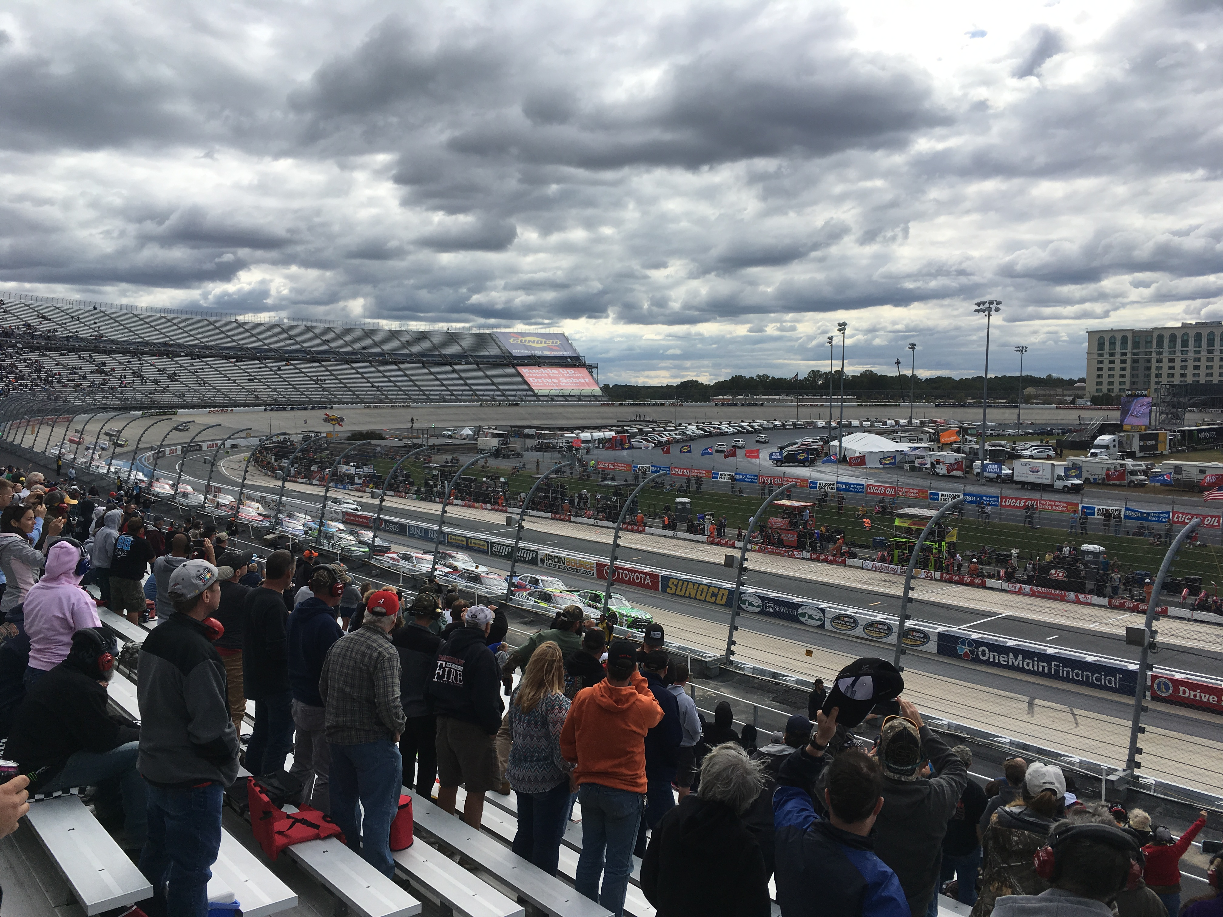 The 2017 Drive Sober 200 at Dover International Speedway viewed from the frontstretch, with William Byron (#9) and Daniel Suarez (#18) on the front row